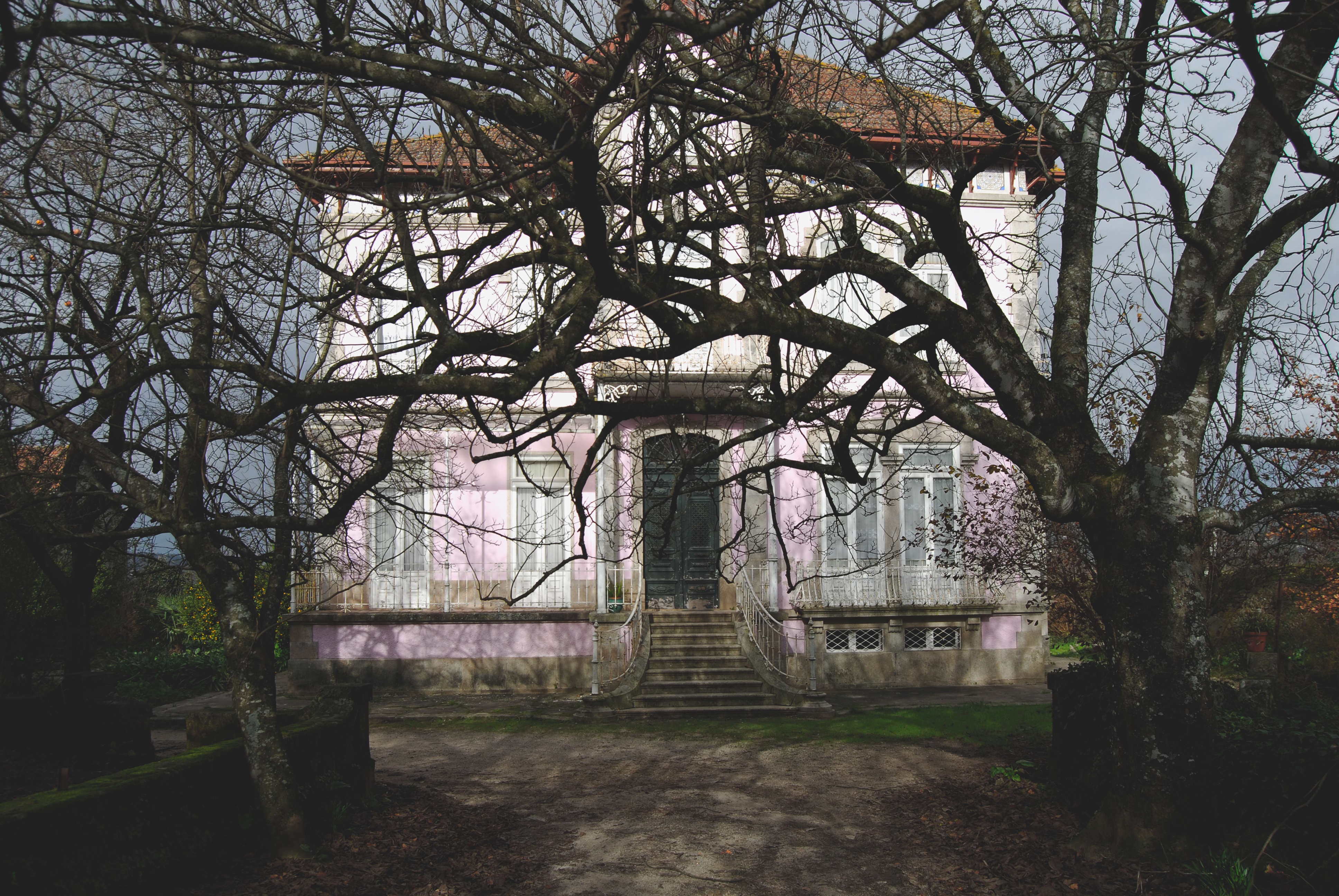 Manner House of Viscount of Cantim